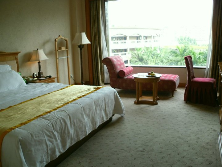 zh|中國廣東省東莞太子酒店